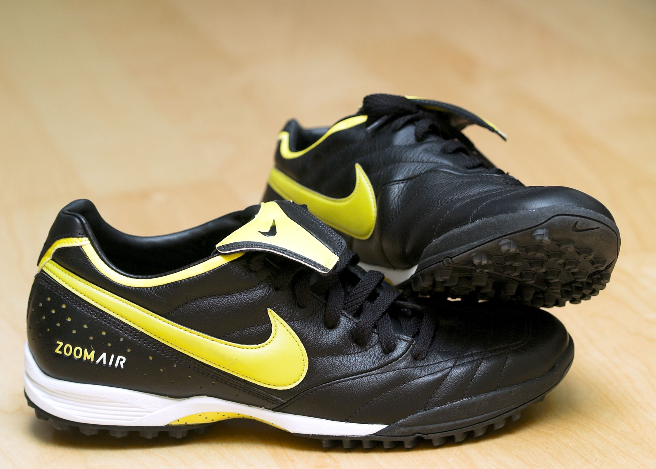 Nike Zoom Air Football Boots, Made in China. These are so called turf shoes (smaller sole pattern), intended to be used on (hard) artificial turf or sand. Pic 1 of 2.